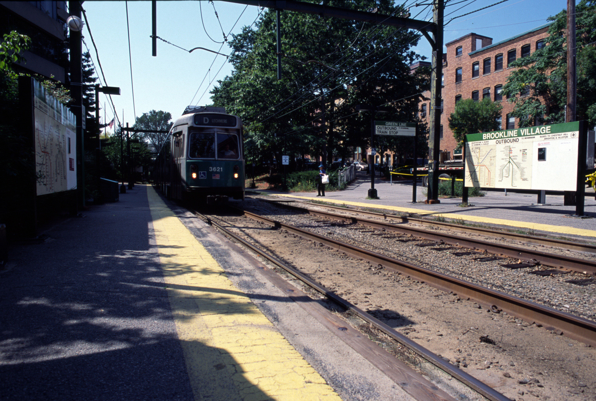 An inbound train at Brookline Village station on the Green Line "D" Branch